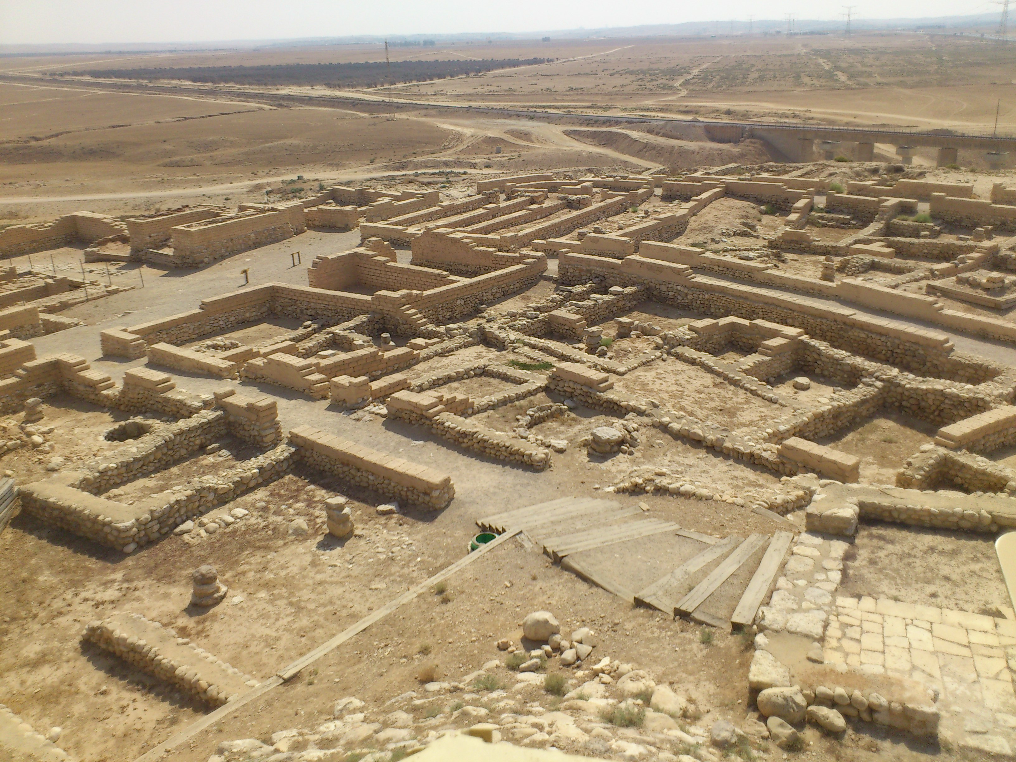 Tel Be'er Sheva